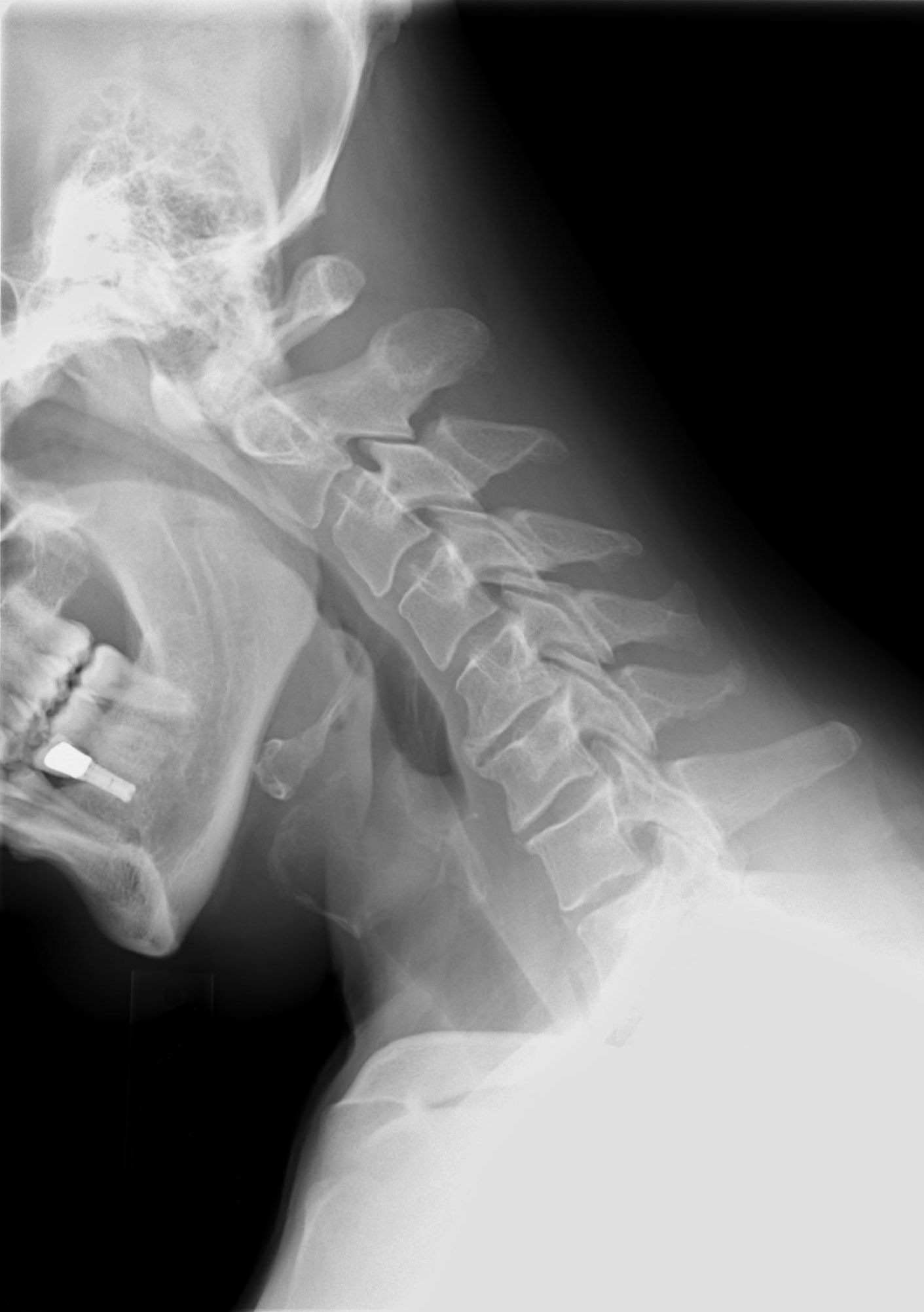 X-ray of cervical spine (neck) in flexion (bending forward). This series of x-rays were part of pre-surgical evaluation to help identify spinal instability. Patient is a 37 year old male with a history of multiple neck traumas with pain and muscle spasms and dental implant in lower jaw. Excerpt from radiologist's report: FINDINGS: Five views of the cervical spine, including flexion and extension, were performed. There is no evidence of fracture, bone destruction, or malalignment. There are degenerative bone and is changes at C5-6. There is no evidence of cervical instability on the flexion and extension views. The facet joints are well aligned. Bony spurring is narrowing the C5-6 neural foramina bilaterally. IMPRESSION: Degenerative changes at C5-6. No evidence of instability.